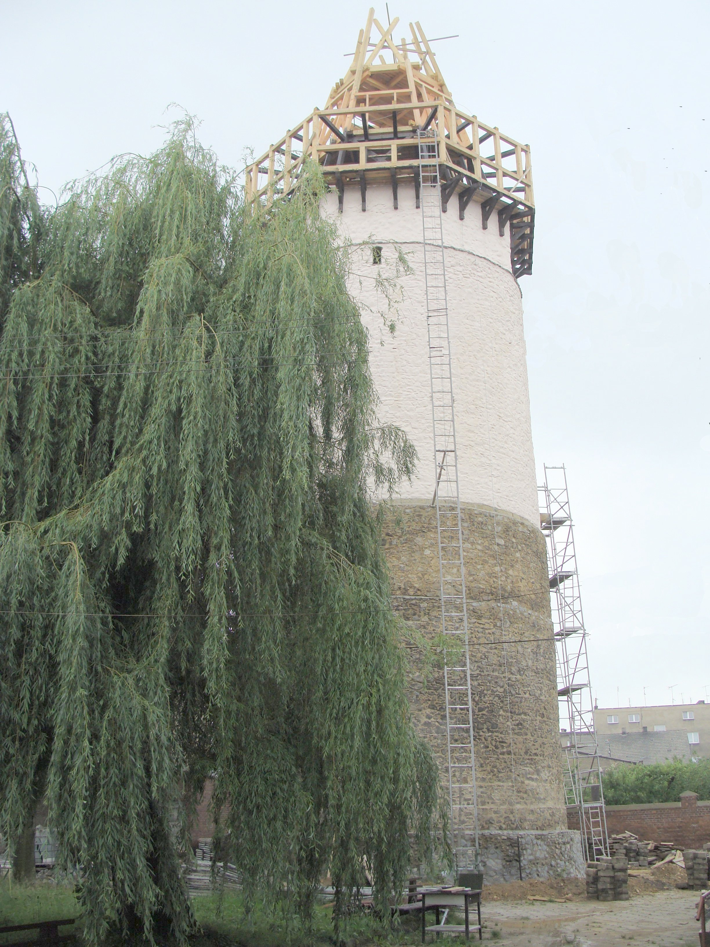 Prudnik (Neustadt in Oberschlesien), Silesia – castle tower